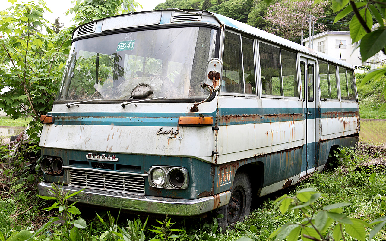 Second generation Nissan Echo LWB G4 (GHC240W)